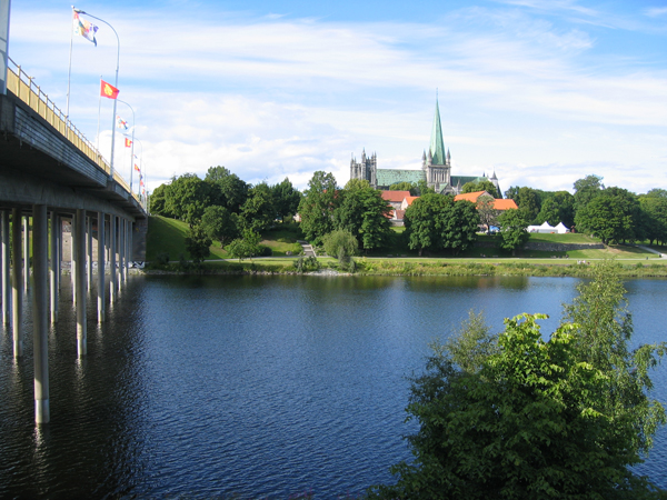 Elgseter bridge and Nidaros cathedral, Trondheim, Norway.